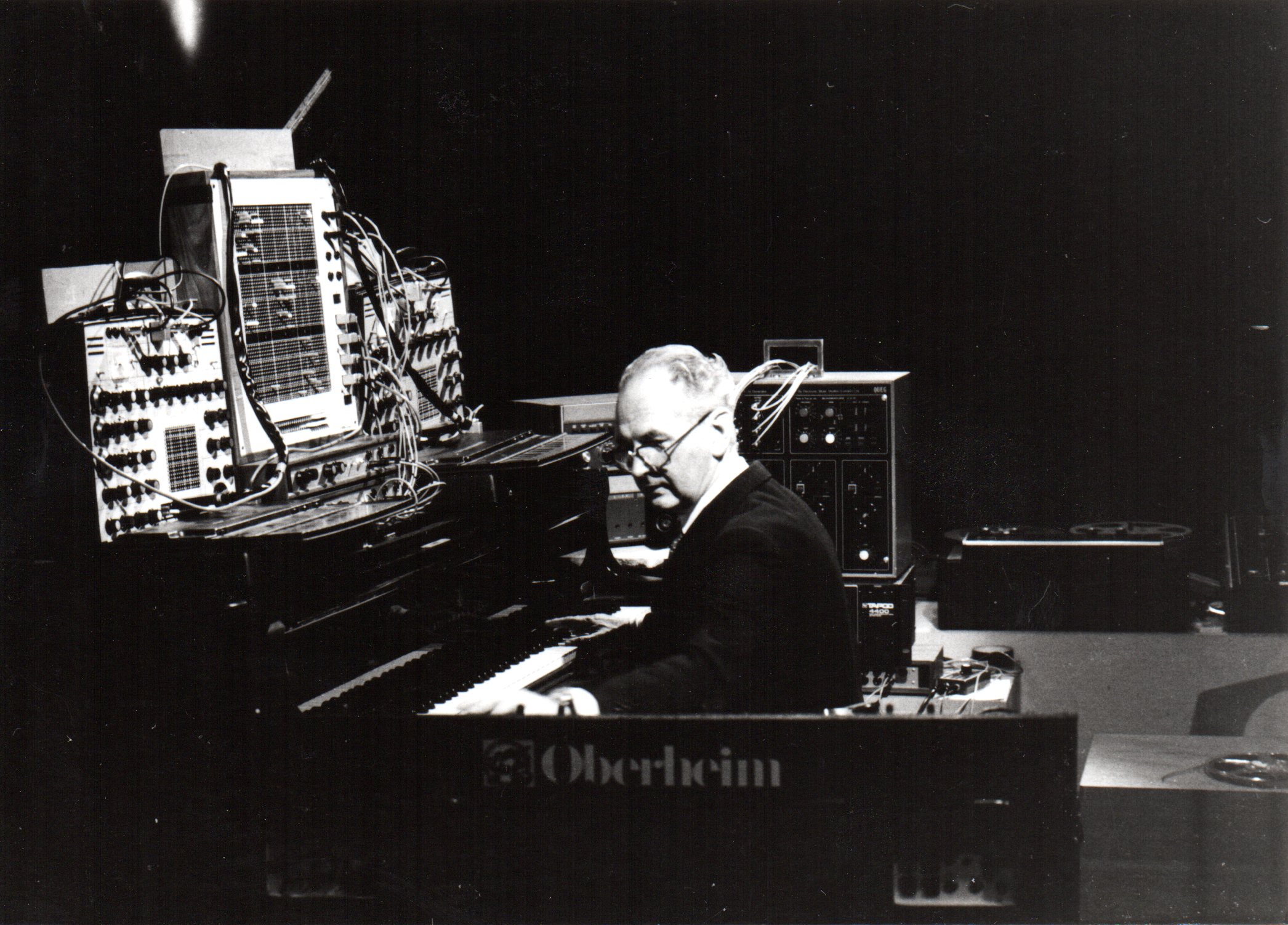 Jean-Étienne Marie rehearsing prior to a performance during a MANCA festival.